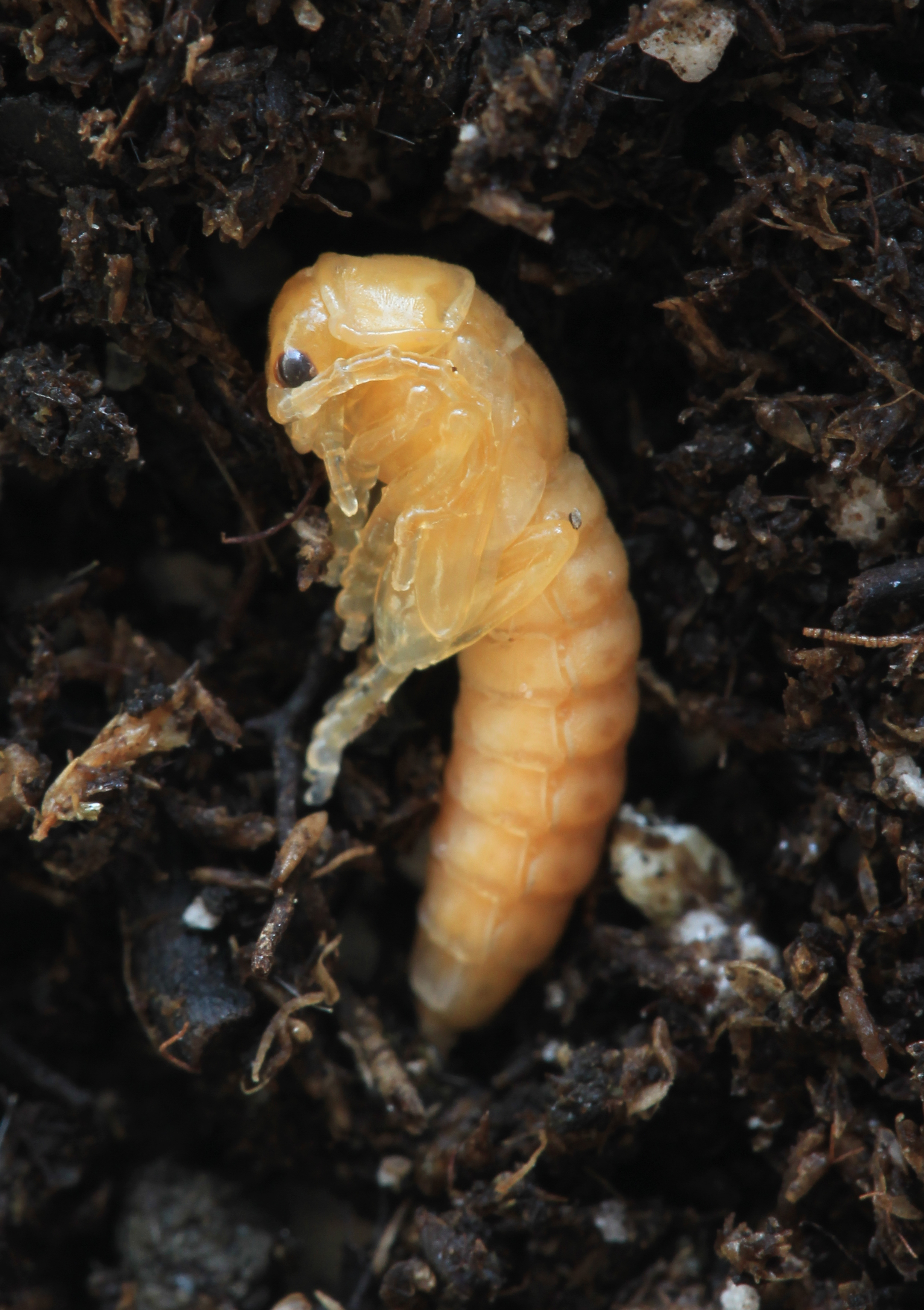 cantharis rufa pupa